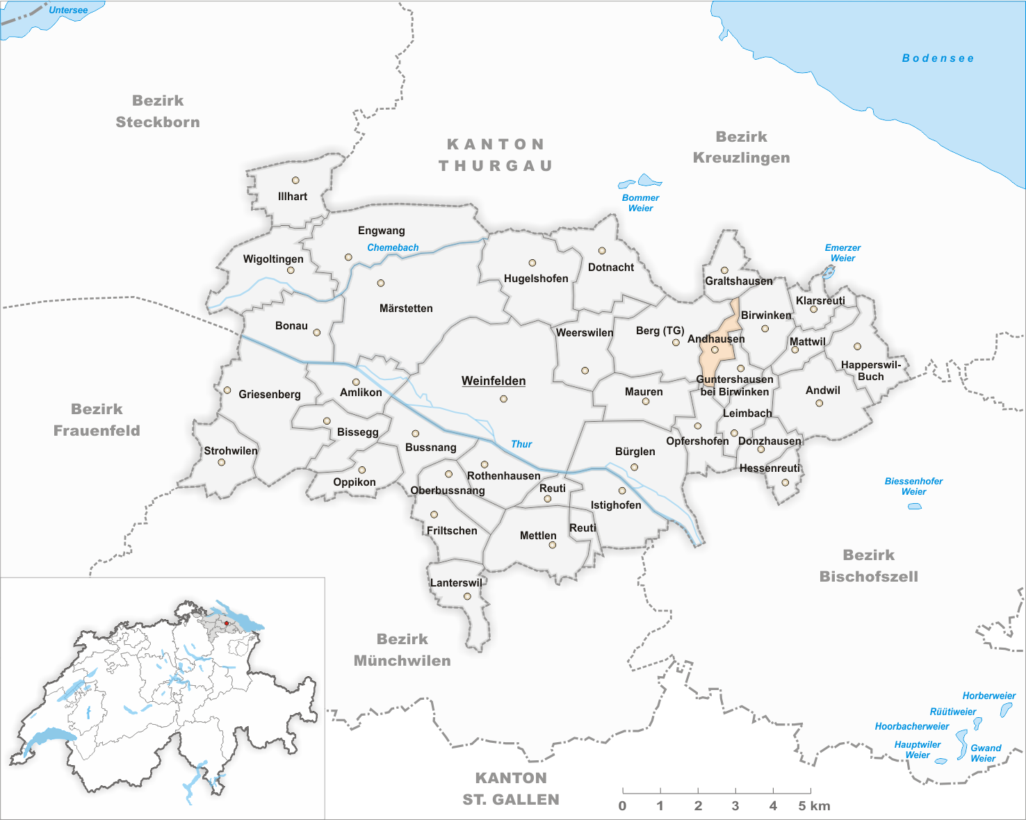 Municipality Andhausen